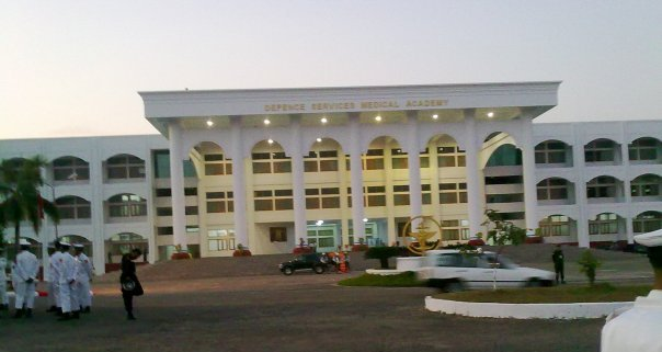 Evening view @dsma